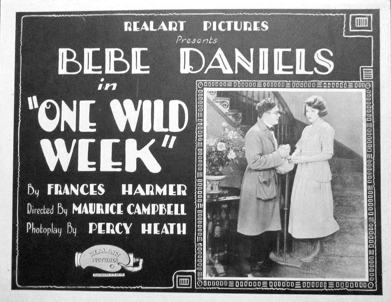 Lobby card for the American film One Wild Week (1921) with an unidentified actor (Frank Kingsley ?) and Bebe Daniels.